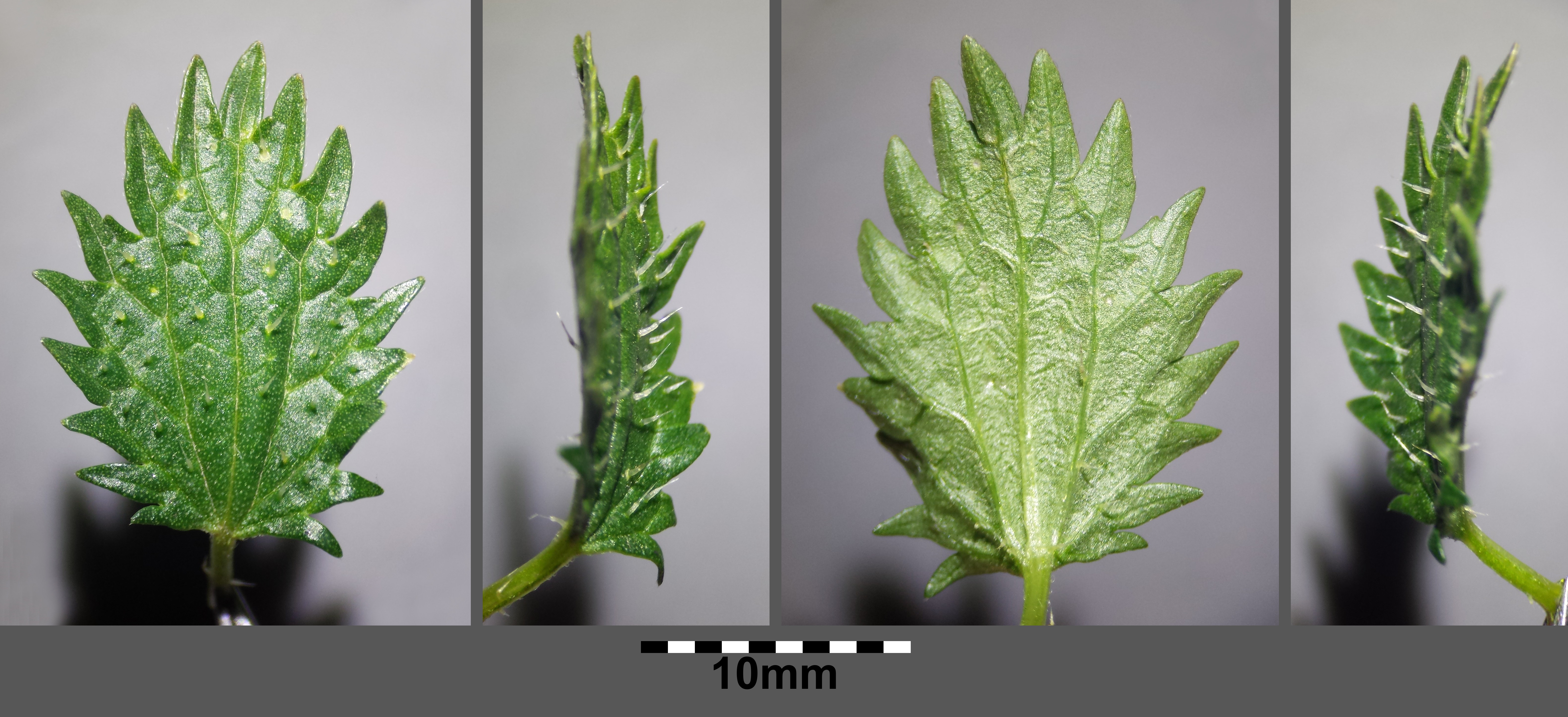 Leaf Taxonym: Urtica urens ss Fischer et al. EfÖLS 2008 ISBN 978-3-85474-187-9 Location: An der Schanze, Donaufeld, Vienna-Floridsdorf - ca. 160 m a.s.l. Habitat: wet field